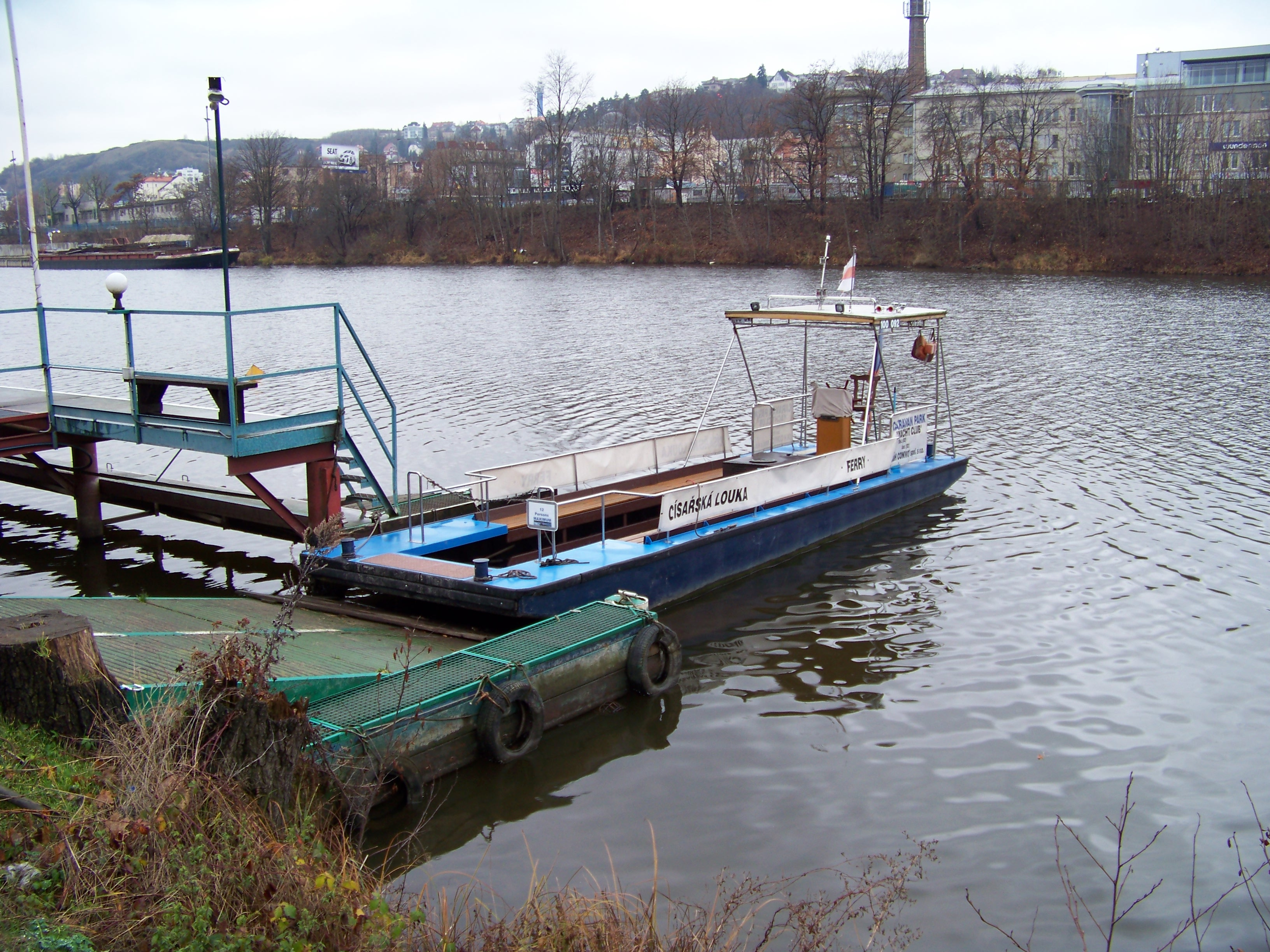 Prague, Smíchov, the Czech Republic. Císařská louka Island, a ferry.